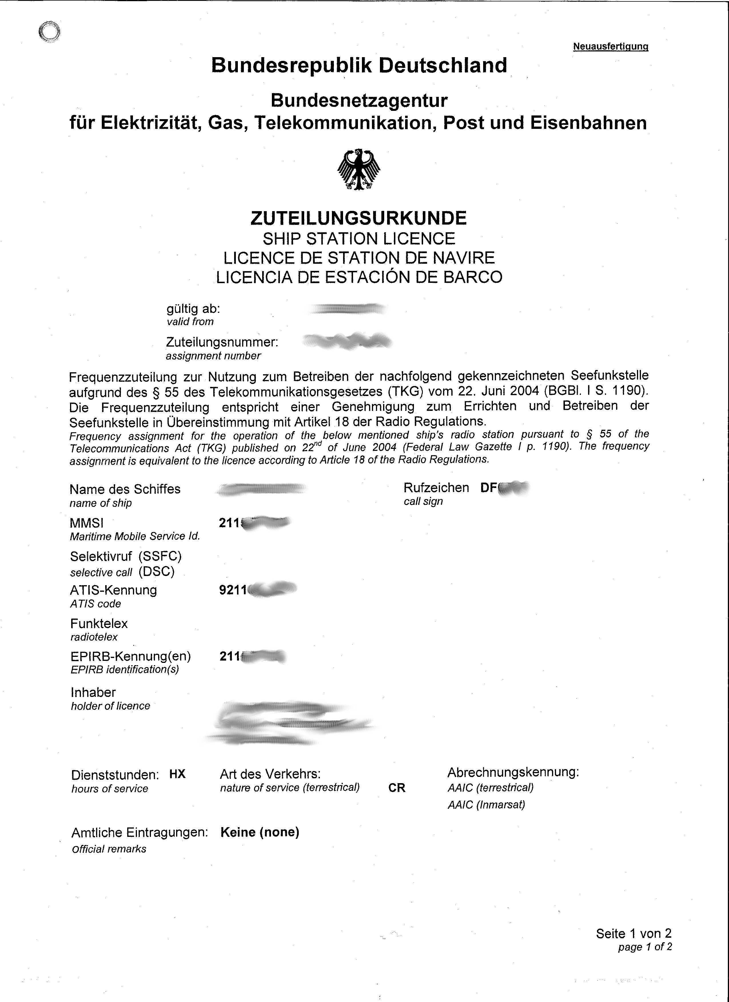 Ship Station Licence